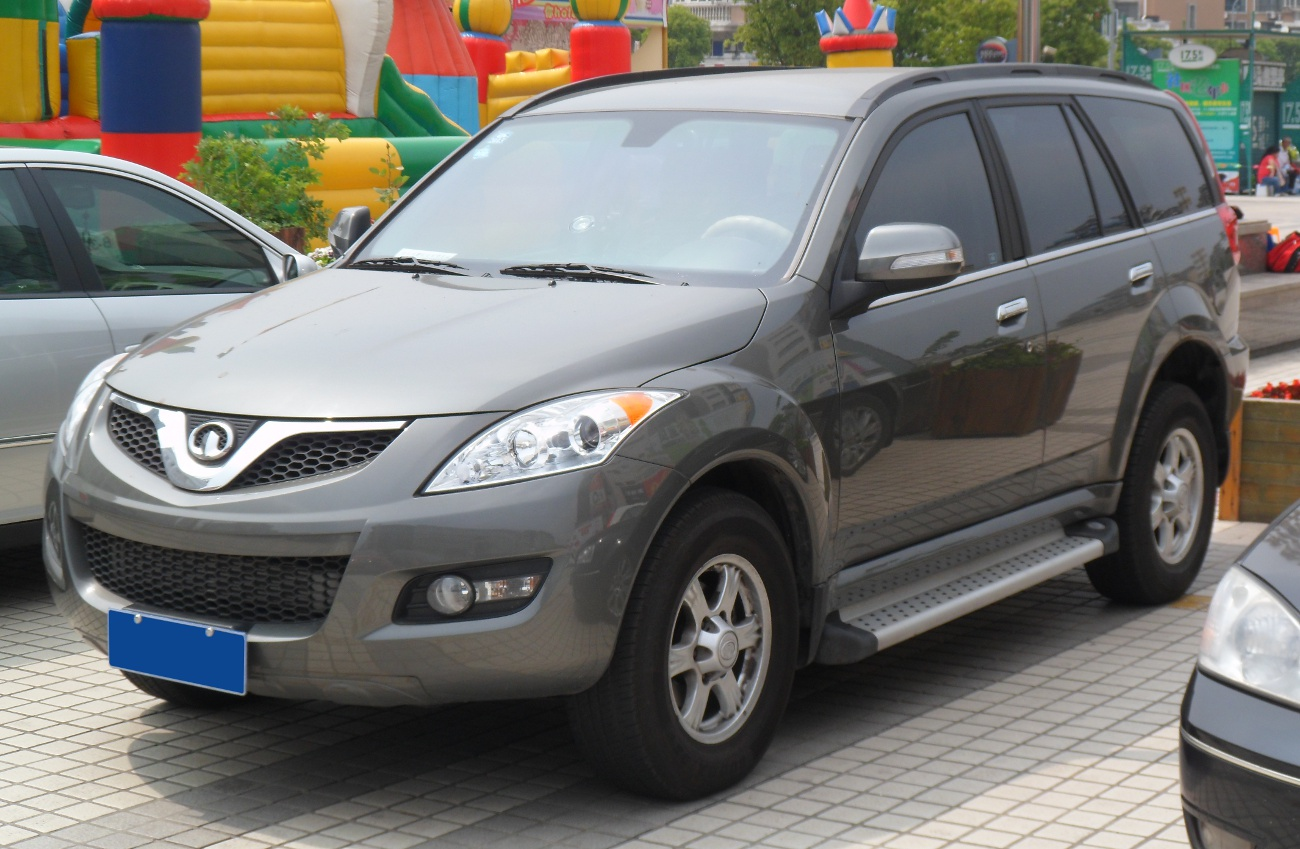 Great Wall Haval H5 photographed in Shanghai, China.